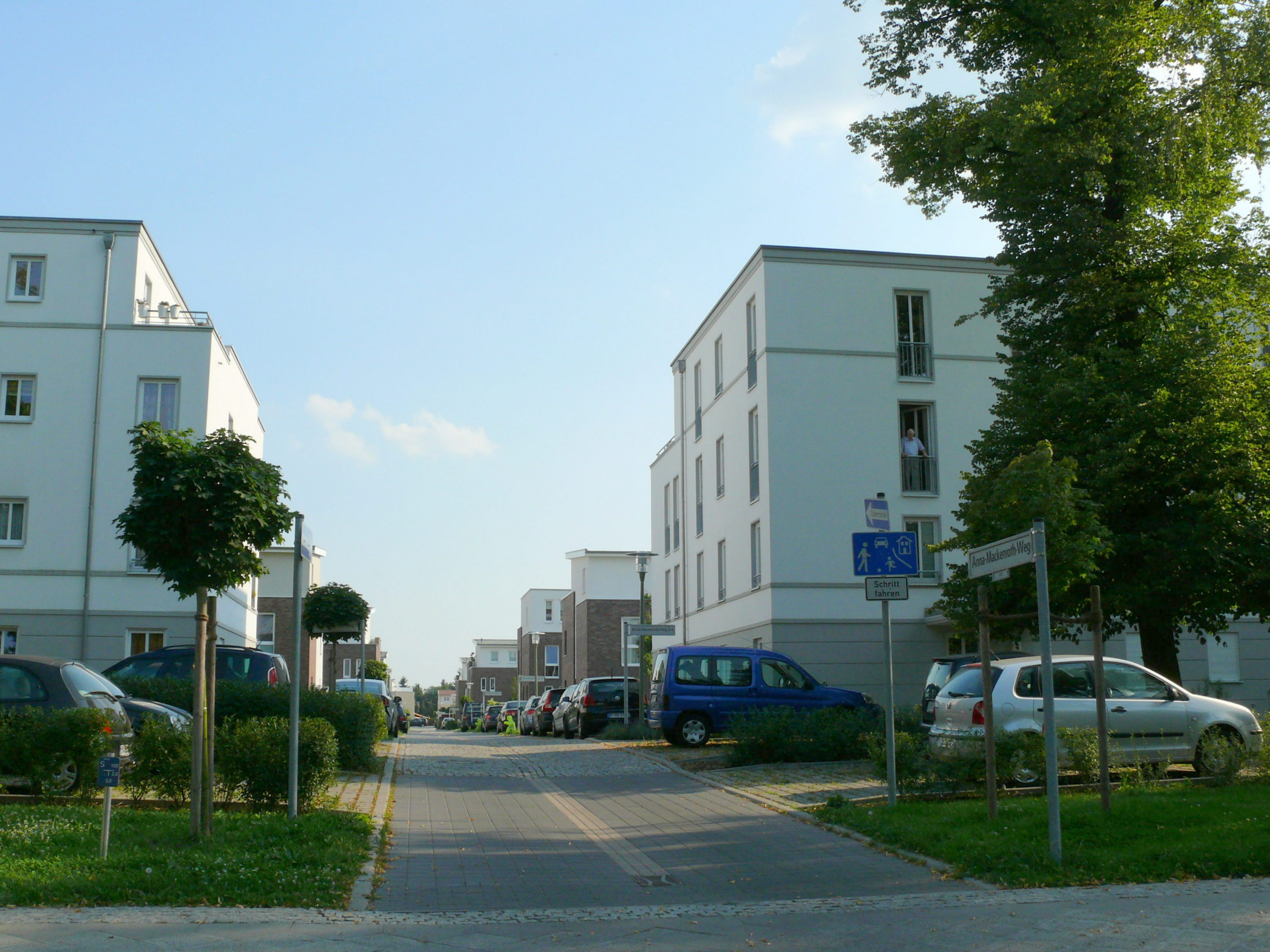 Berlin-Lichterfelde Anna-Mackenroth-Weg